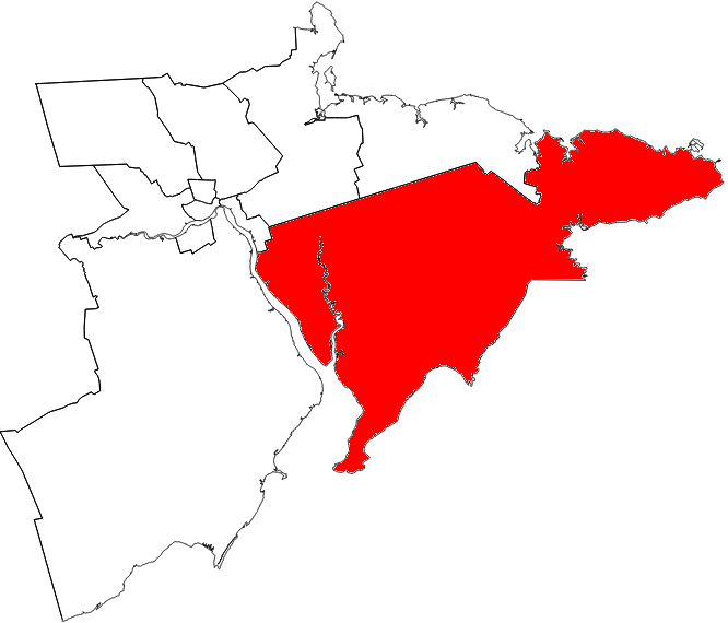 The riding of Memramcook-Tantramar in relation to other southeastern New Brunswick electoral districts